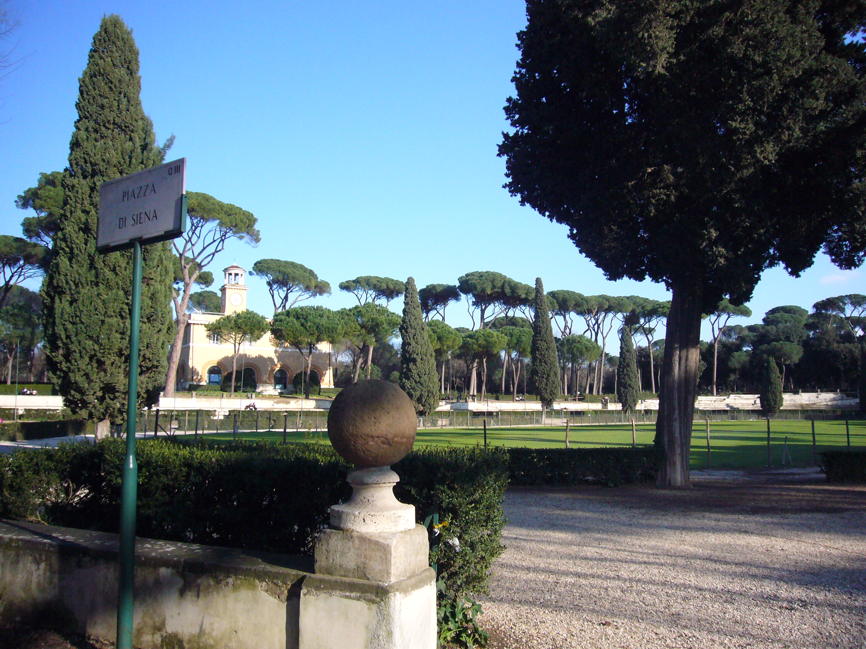 Piazza di Siena, Villa Borghese gardens, Rome. By Howard Hudson